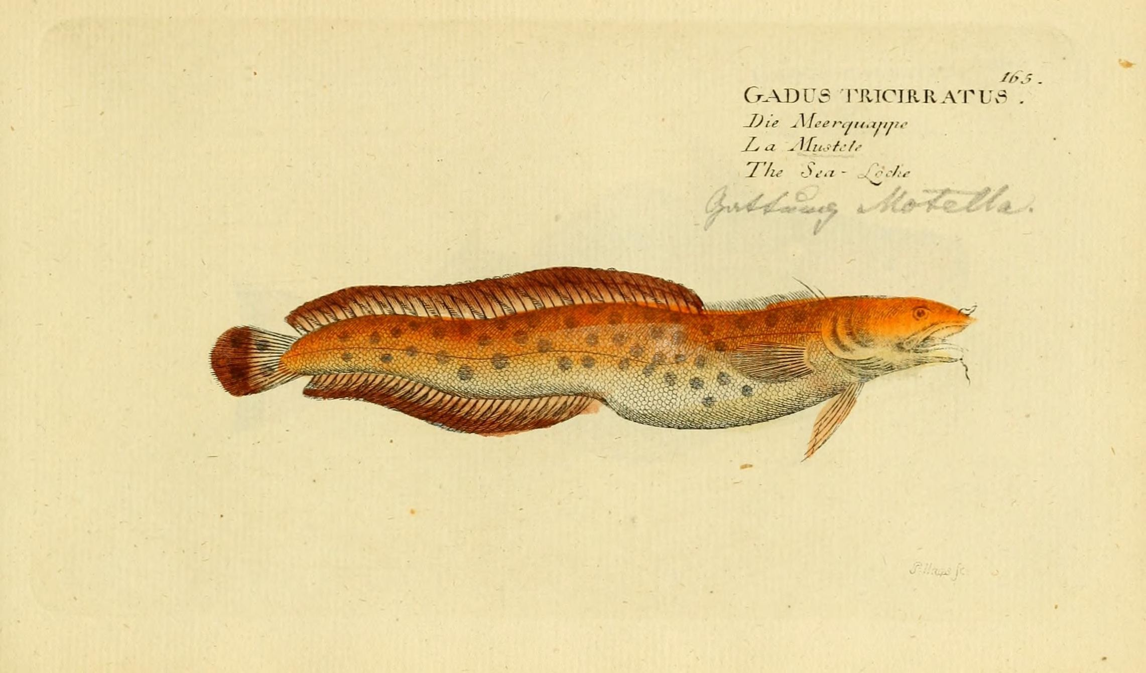 Cr.AD US1 MITCIR Il AT U fl JJie J\det r.n/.it/r/r Lu Afusijft The S ta.- .-■■/.:■ //•.;.